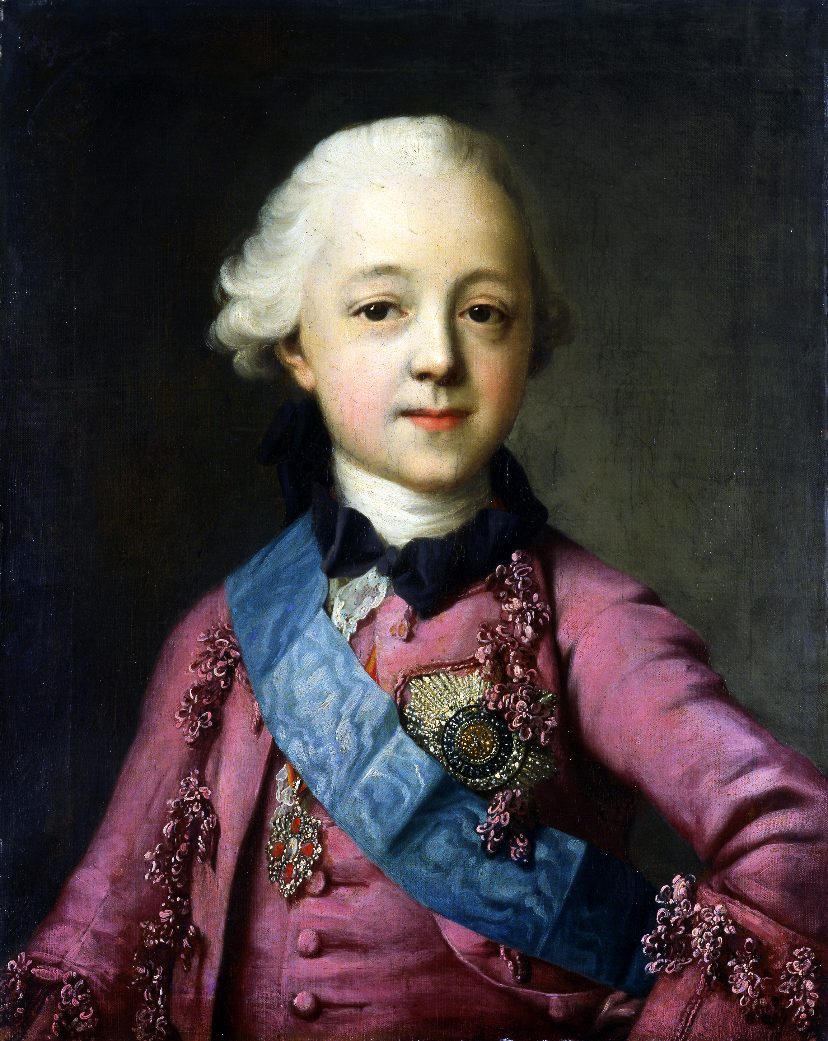 Grand Duke Paul (later the Emperor Paul I), 1764 The David Collection, Copenhagen Inv. no. 21/1962